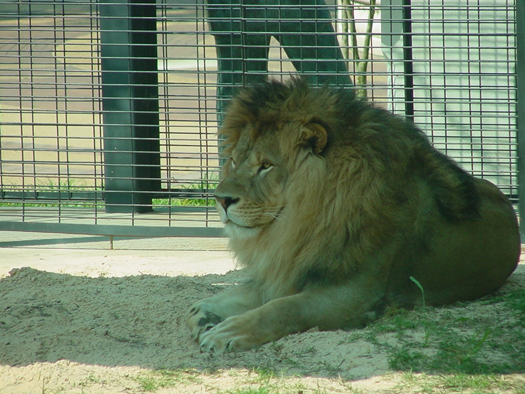 Taken by me on the University of North Alabama Campus, May 22, 2007.